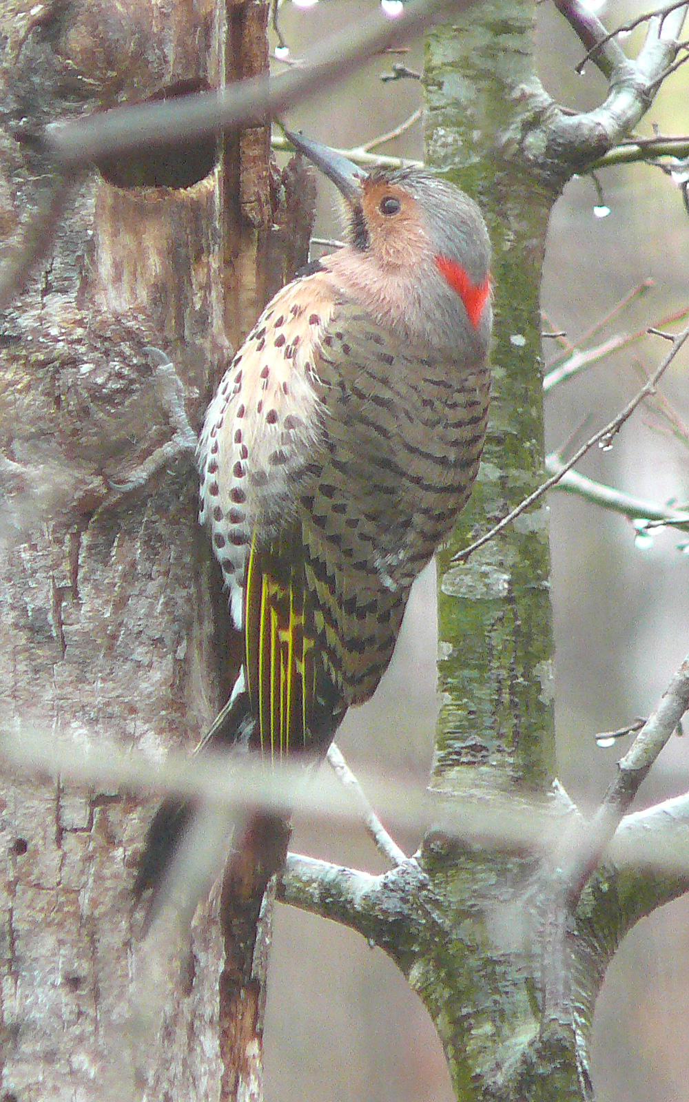 Yellow-shafted Northern Flicker (Colaptes auratus).Photo taken with a Panasonic Lumix DMC-FZ50 in Johnston County, North Carolina, USA.